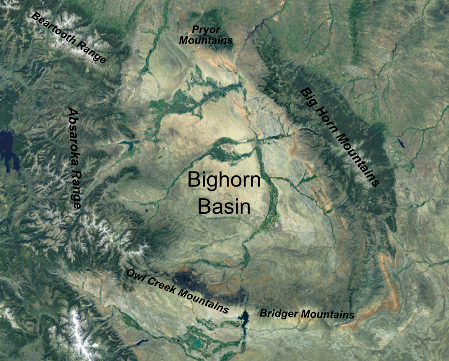 Satellite image of the Bighorn Basin with the bounding ranges labelled - image is a screenshot from NASA WorldWind software